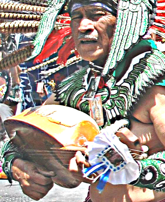 Player of conchero guitars